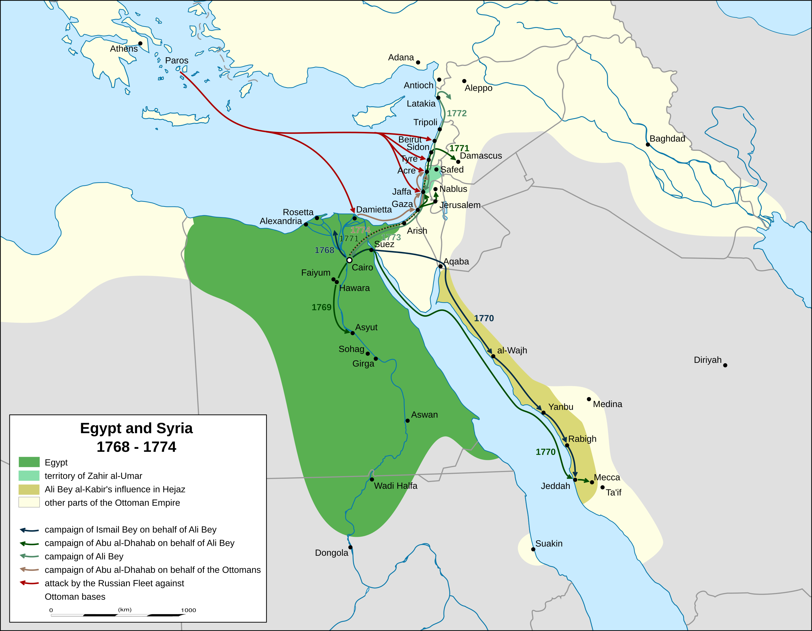 map of mamluk egypt, palestine and syria 1768 to 1774. campaigns and advances according to Sauveur Lusignan: A history of the Revolution of Ali Bey against the Ottoman Porte (London 1783) and Meyers Konversationslexikon, vol. 1, page 359 (Leipzig, 4th edition, 1885-1892)